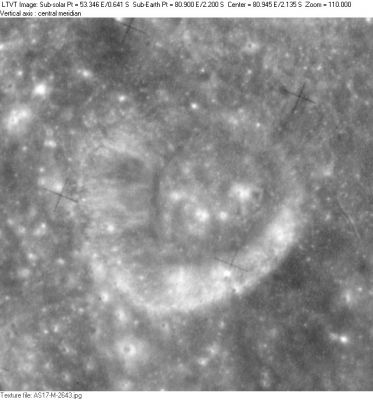 Carrillo lunar crater - Apollo-17 photo AS17-M-2643